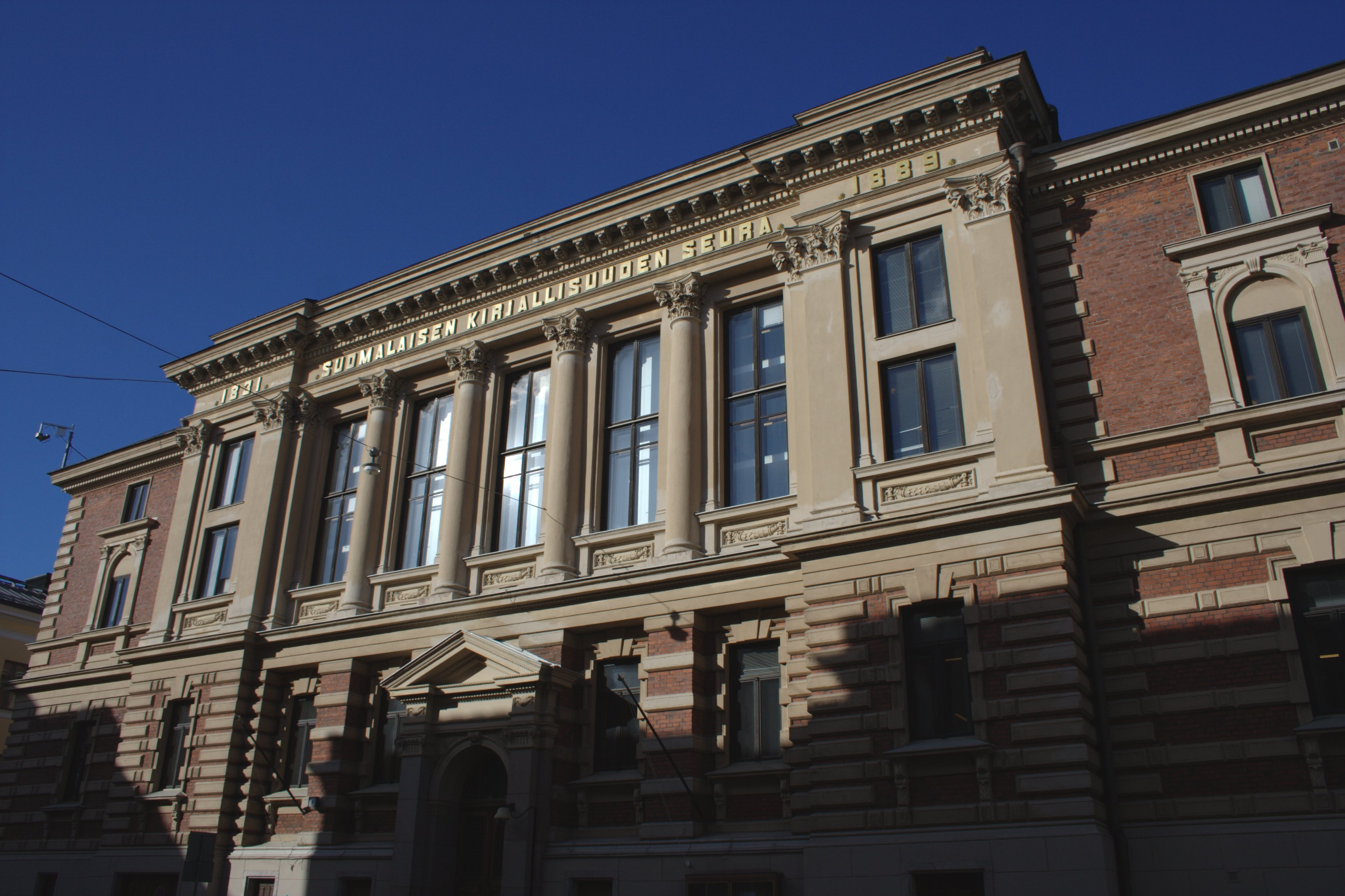 Facade of the Finnish Literature Society building in Helsinki